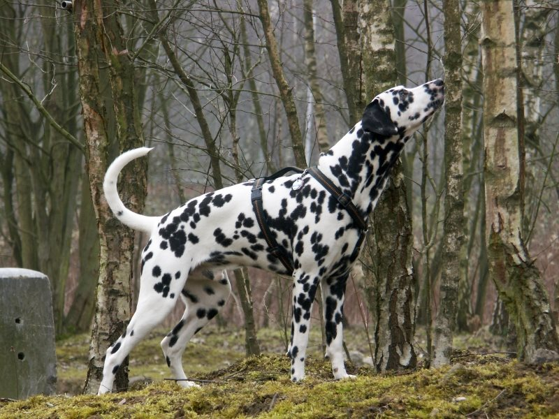 Dalmatiner